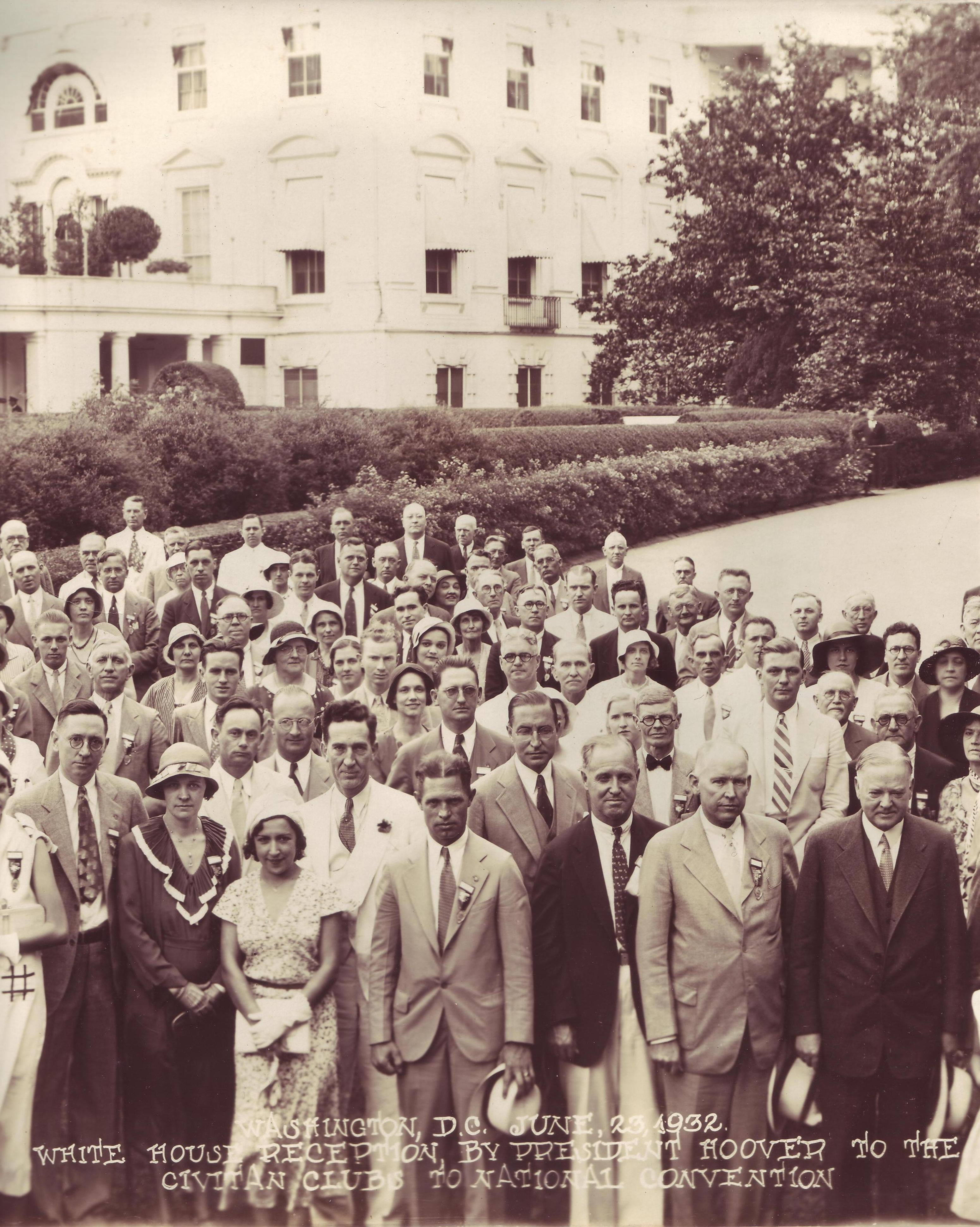 Image of Herbert Hoover (bottom right) holding a reception at the White House for delegates to the 13th Civitan International convention.